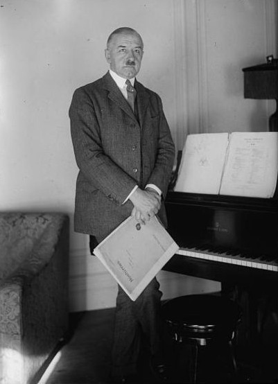 Rudolph Ganz (1871 – 1972), Swiss pianist, conductor and composer